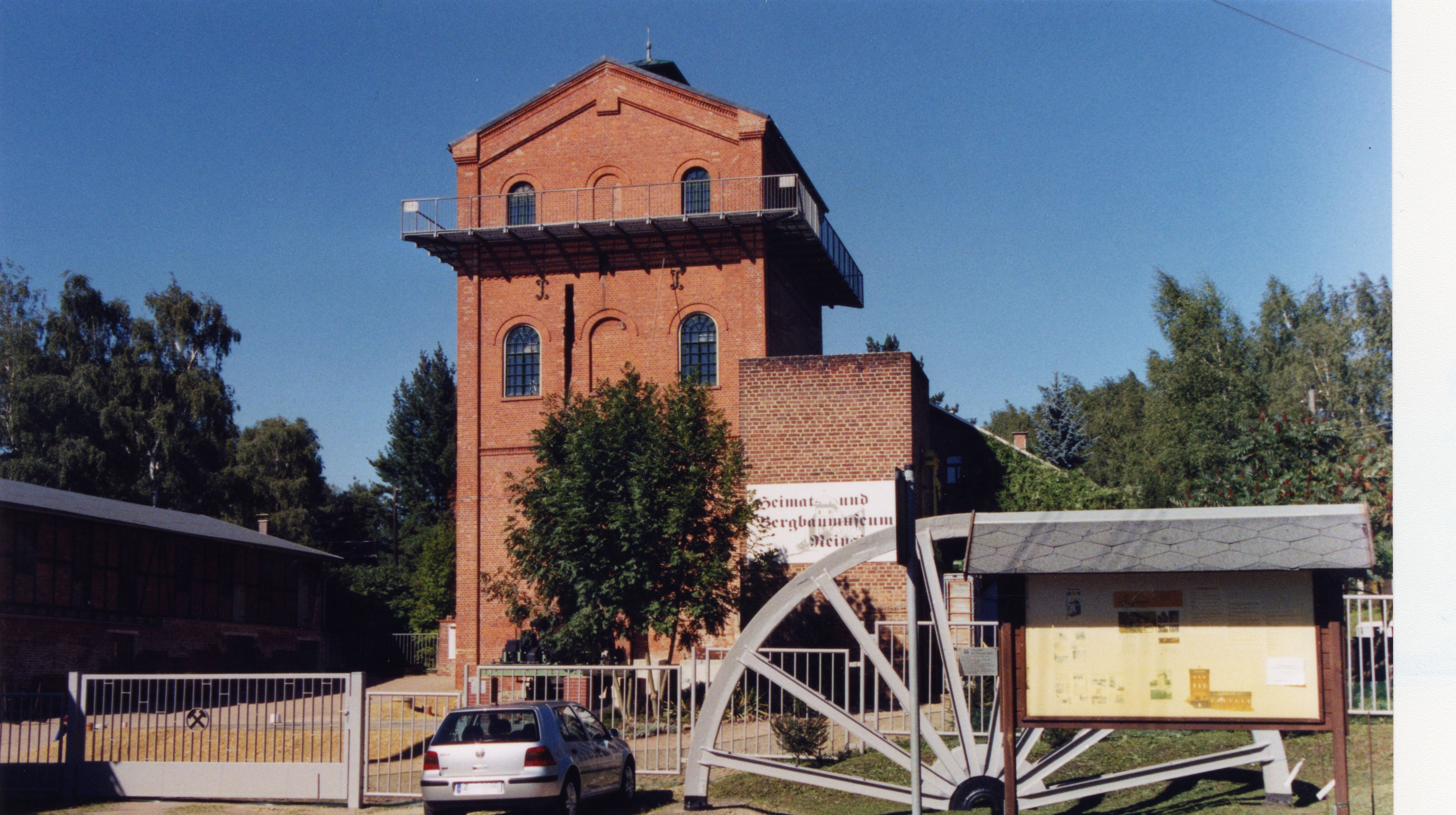 Winding tower of No. II shaft, Morgenstern / Martin Hoop coal mine; Reinsdorf, Saxony, Germany; today mining museum.